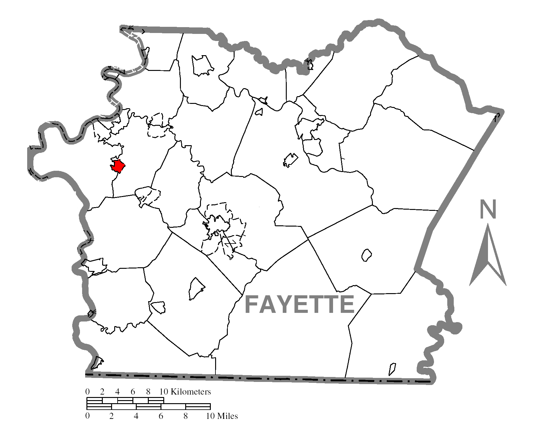 Map of Fayette County higlighting Republic.